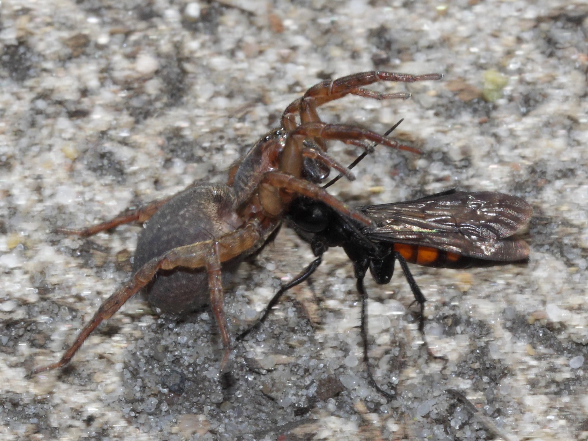 wasp L: 8-14 mm Phylum: Arthropoda Class: Insecta (insects, Insekten) Order: Hymenoptera (Hautflügler) Suborder: Apocrita (Taillienwespen) Superfamily: Vespoidea Family: Pompilidae (spider wasps, Wegwespen) Subfamily: Pompilinae Genus: Anoplius Dufour, 1834 Anoplius viaticus LINNAEUS, 1758 (Frühlings-Wegwespe), ♀ more info (German): prey L: 10-14 mm (♀) Phylum: Arthropoda Subphylum: Chelicerata Class: Arachnida Cuvier, 1812 (arachnids) subclass Micrura infraclass Megoperculata Order: Araneae Clerck, 1757 (spiders) Suborder: Araneomorphae (Echte Webspinnen) superfamily Lycosoidea Family: Lycosidae Sundevall, 1833 (wolf spiders, Wolfsspinnen) Genus: Trochosa C. L. Koch, 1847 Trochosa terricola Thorell, 1856 (Erd-Wolfsspinne), ♀ Germany, Brandenburg, vic. Königs-Wusterhausen: Dubrow, 05.05.2013 IMG_3499